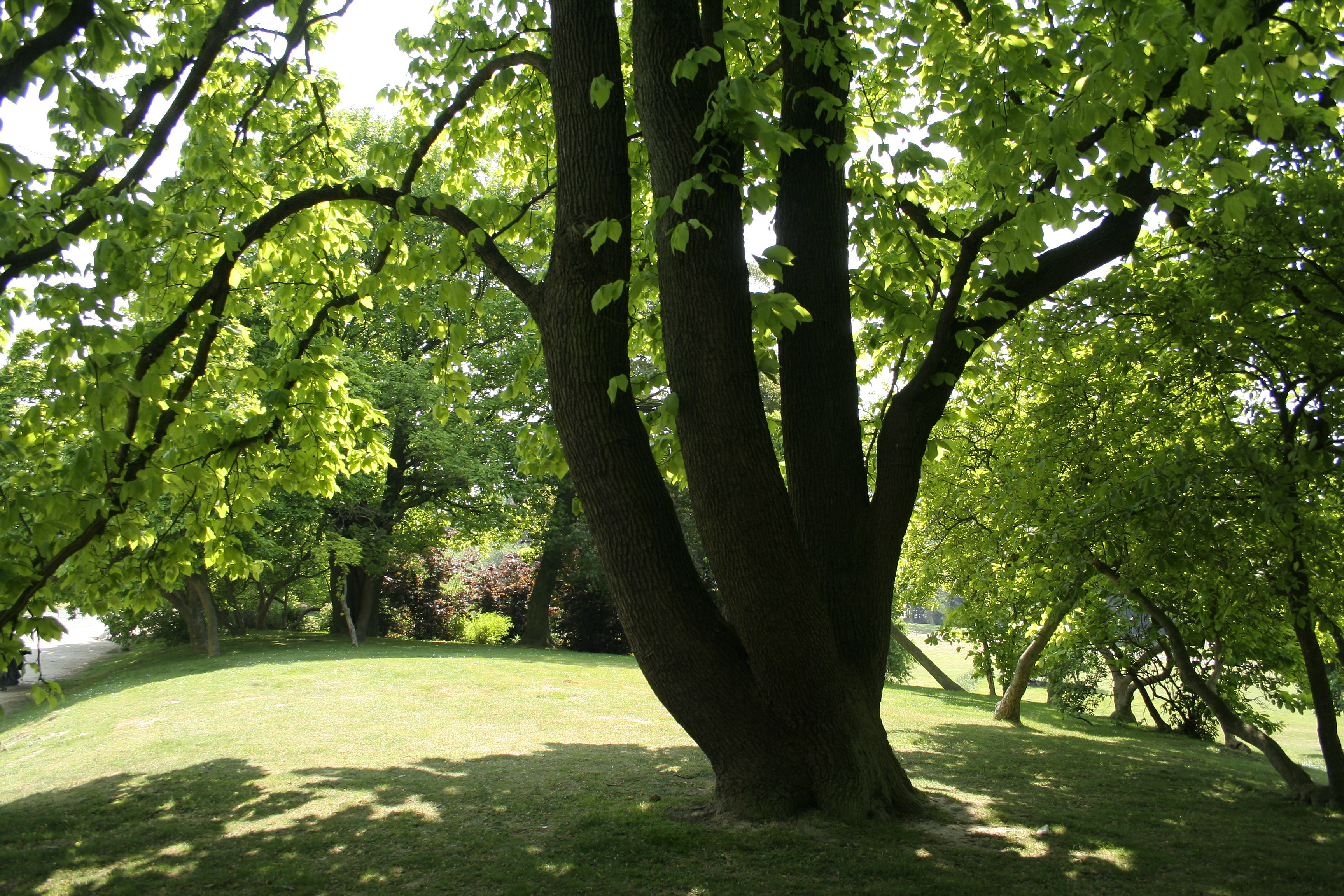 Magnolier à feuilles acuminées (Magnolia acuminata). Laeken (Belgique) – Parc de Laeken - 446.